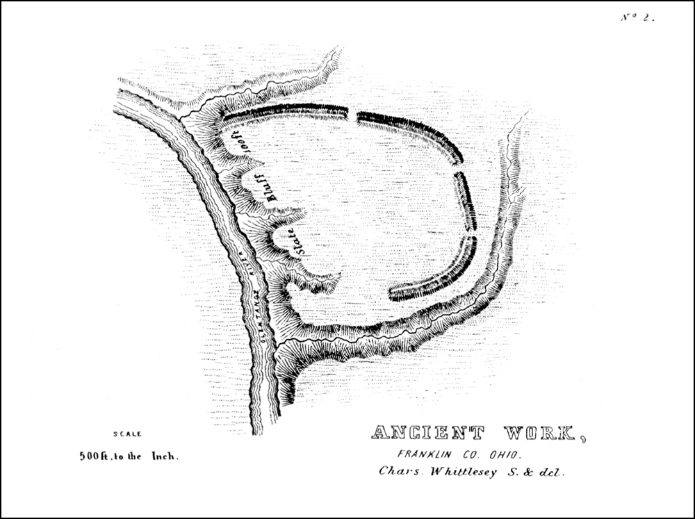 Squier and Davis engraving, part of plate number XIV, of the Highbanks Park Earthworks. The site is located on the Olentangy River in Delaware County, Ohio, immediately north of the border with Franklin County, Ohio. The site is believed to have been built by the Late Prehistoric Cole culture.